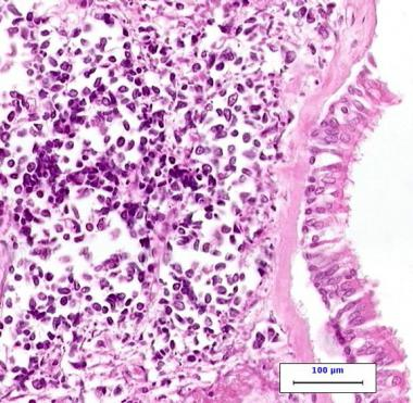 High-power photomicrograph of small cell carcinoma on the left side of the image with normal ciliated respiratory epithelium on the right side of the image.